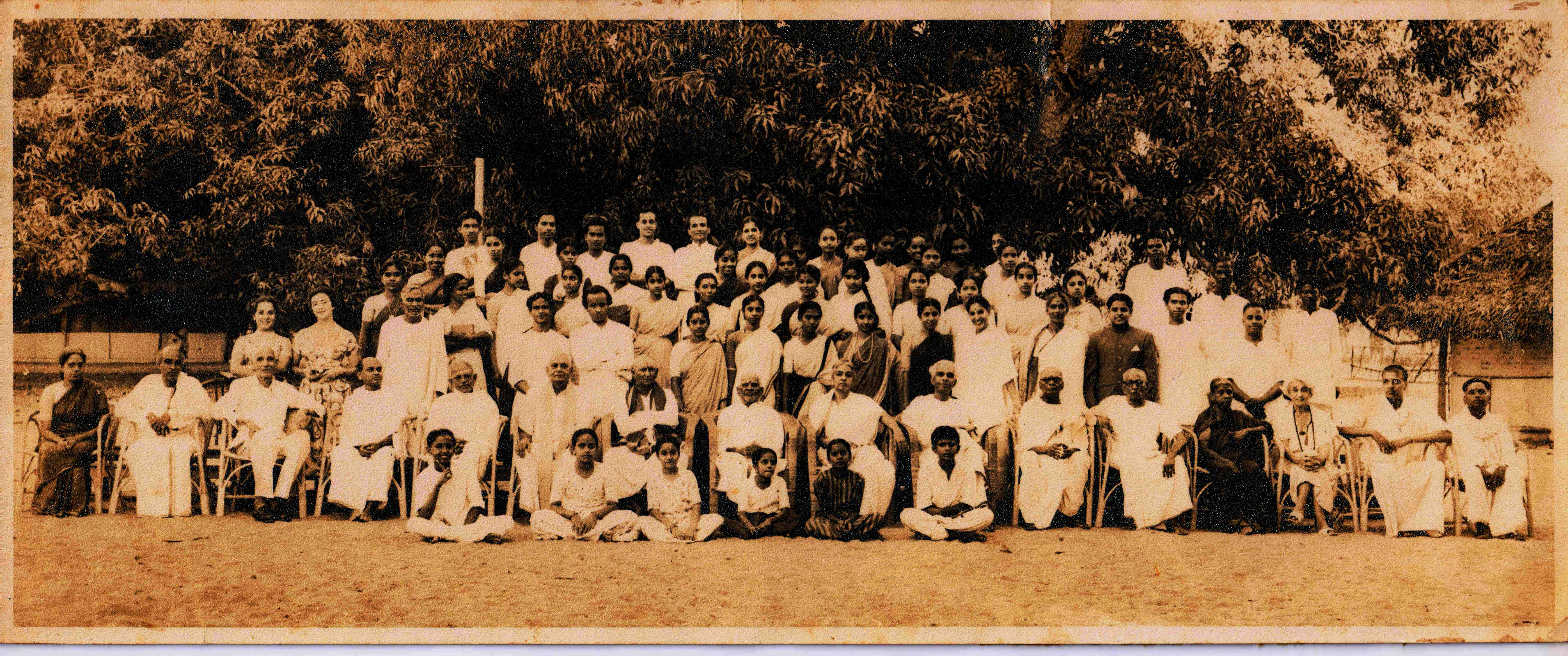 Karaikudi Subramanian (sitting at the left most) at Kalakshetra